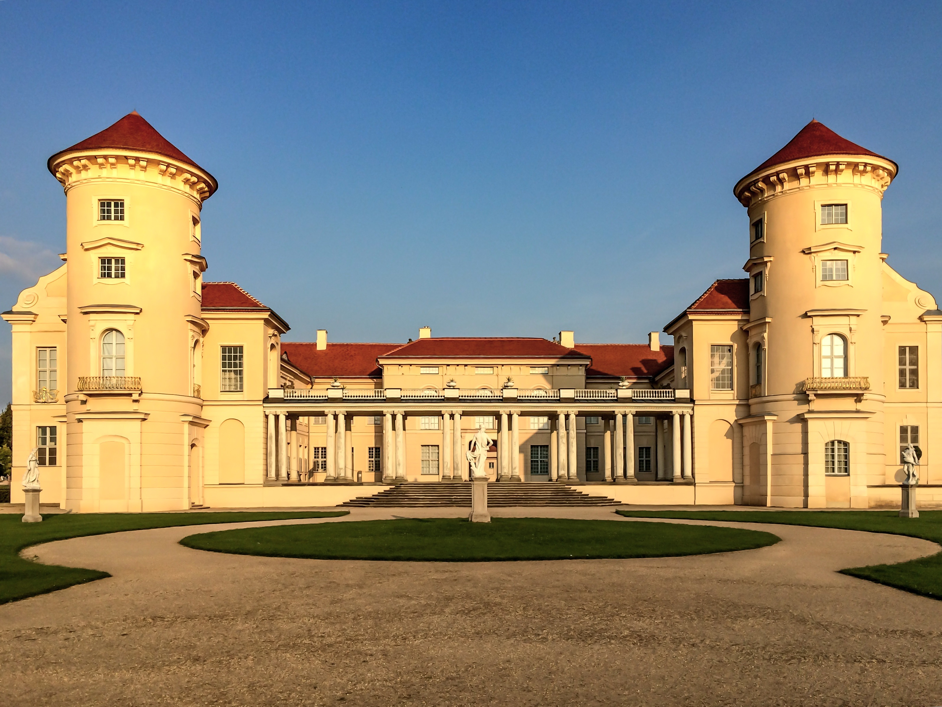 Rheinsberg Palace (September 2014), at Rheinsberg Germany, Residence of Prince Frederick, the later Frederick the Great from 1736-1740